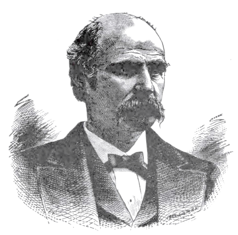 Robert White (February 7, 1833 – December 12, 1915) was a prominent 19th century American lawyer and politician in the U.S. state of West Virginia. White served as the Attorney General of West Virginia (1877–1881). During the American Civil War, he served as a Colonel under the command of Lieutenant General Stonewall Jackson. White was a member of the White political family of Virginia and West Virginia and was the son of Hampshire County Clerk of Court John Baker White (1794–1862) and grandson of Virginia judge Robert White (1759–1831).